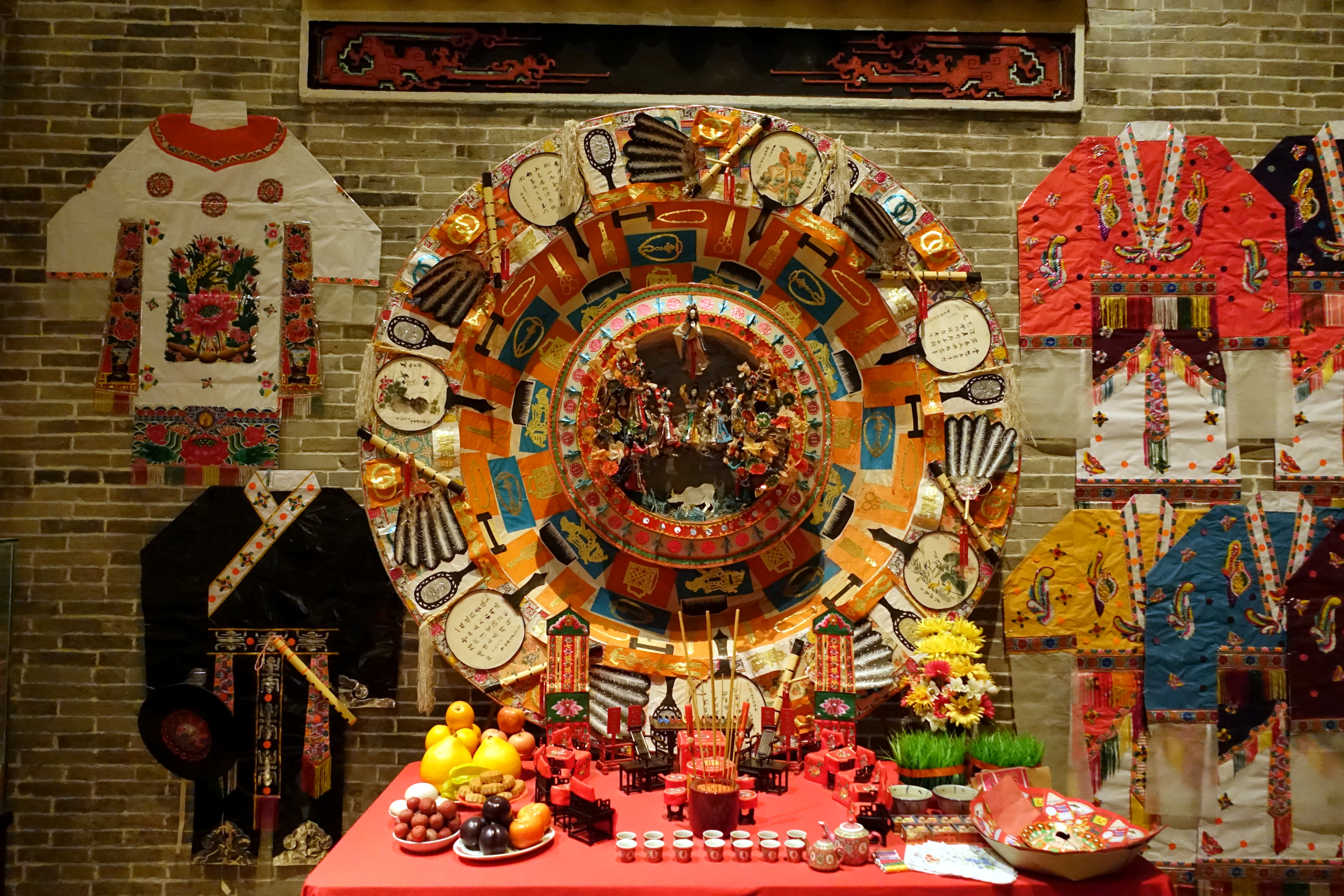 Exhibit in the Hong Kong Museum of History, Hong Kong. This artwork is old enough so that it is in the public domain.